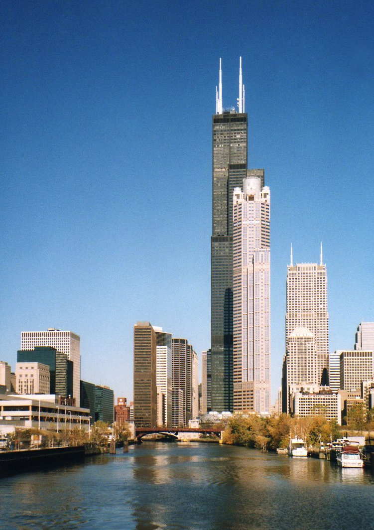 Autho giorces. Chicago Grattacieli